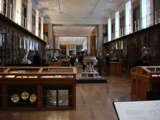 British Museum, King's Library This large room on the eastern side of the British Museum was built between 1823 and 1827 to house the King's Library which was given to the nation in 1823 by King George IV. In 1998 the books were transferred to their new home in the new British Library building at St Pancras, leaving this room devoid of its original use, now it is used as exhibition space and known as the Enlightenment Gallery or Room 1. A more detailed history of this room